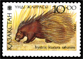 Porcupine (Hystrix leucura satunini or Hystrix indica), a Kazakhstan stamp, 10, 1993.